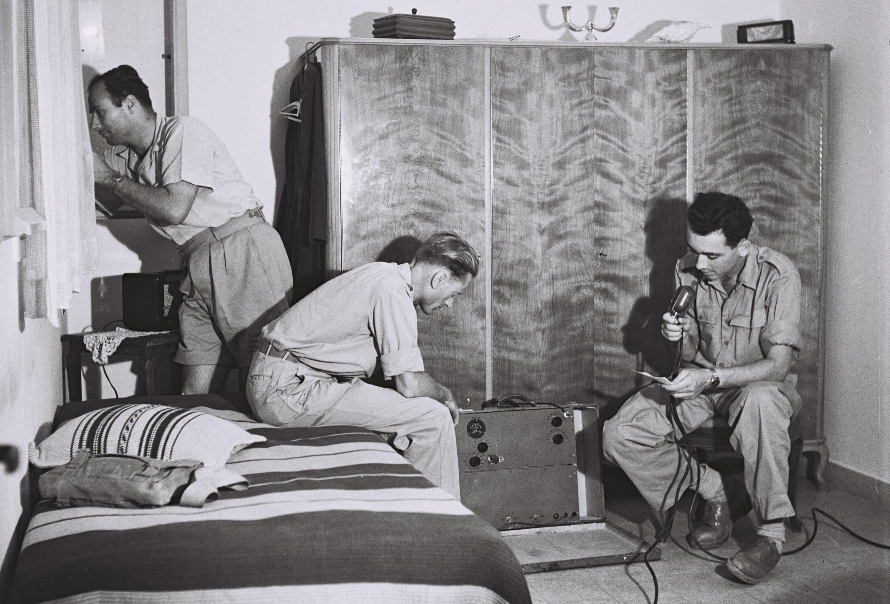 Ishi reading the news over the illegal Hagana transmitter with Ze'ev handling the controls and Naftali Raz looking out from the bedroom window for British Police. החבר ישי מקריא את חדשות ההגנה במשדר לא חוקי, זאב מטפל בלוח הבקרה ונפתלי רז שומר מפני המשטרה הבריטית